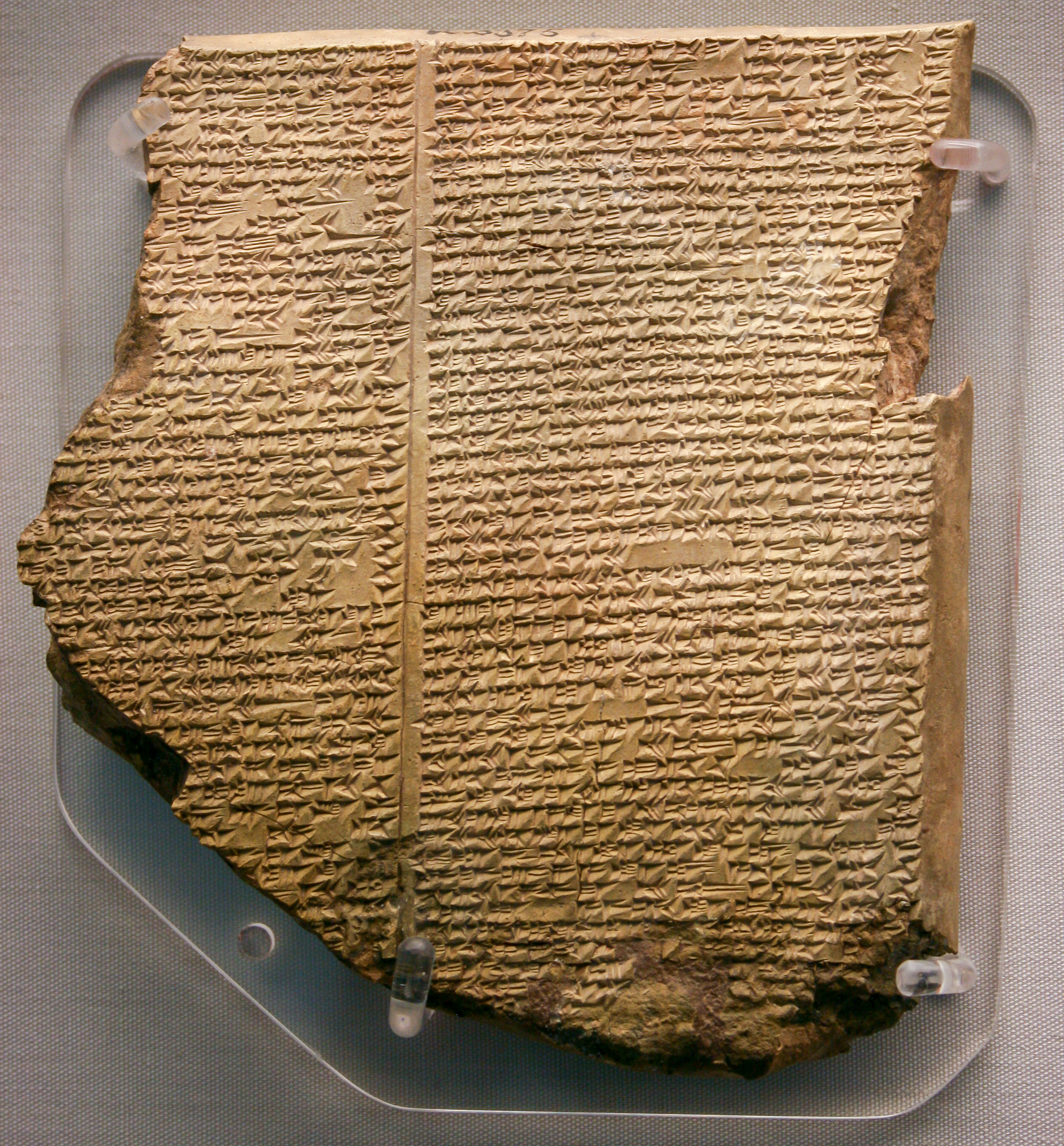 "The Flood Tablet. This is perhaps the most famous of all cuneiform tablets. It is the eleventh tablet of the Gilgamesh Epic, and describes how the gods sent a flood to destroy the world. Like Noah, Utnapishtim was forewarned and built an ark to house and preserve living things. After the flood he sent out birds to look for dry land. ME K 3375." In the British Museum.